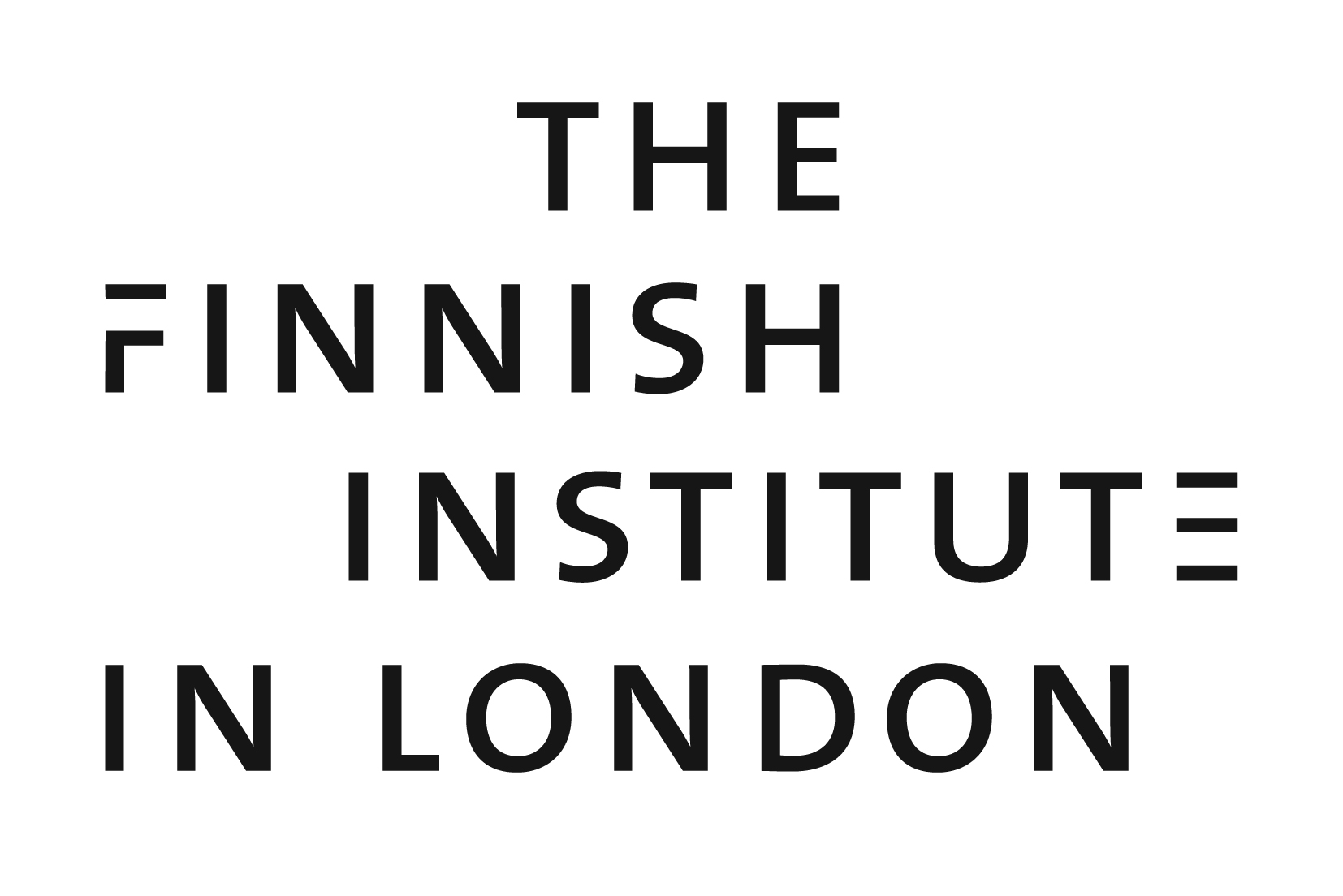 The official logo of the Finnish Institute in London, designed by Mikko Teerenhovi.